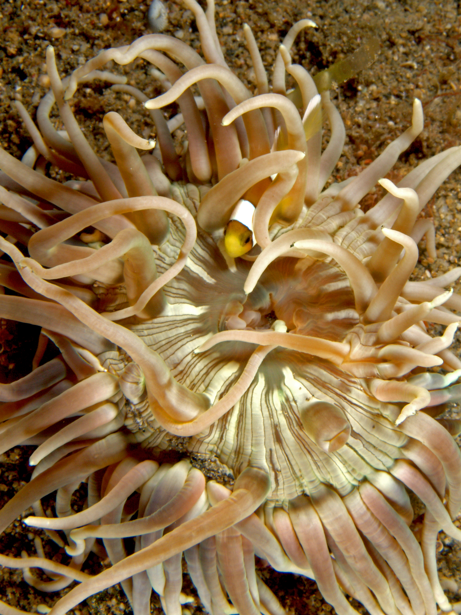 Dofleinia armata (Sea anemone)